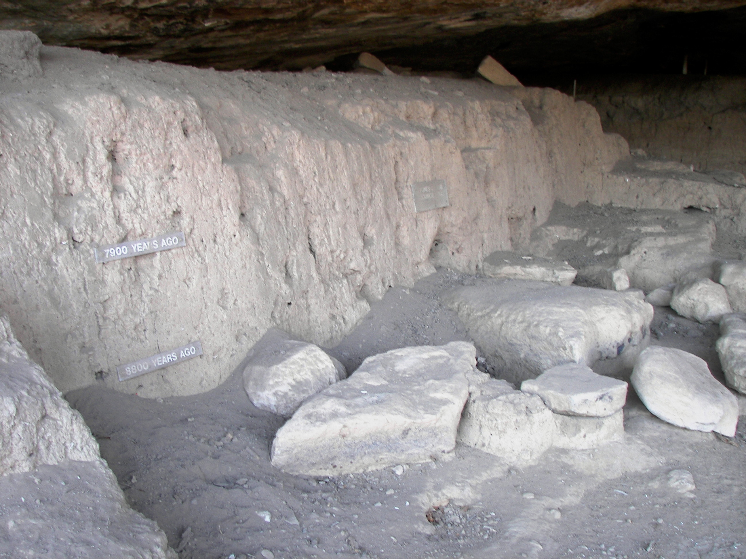 Graham Cave is a Native American archaeological site near Mineola, Missouri in Montgomery County. The entrance of the sandstone cave forms a broad arch 120 feet (37 m) wide and 16 feet (5 m) high. Extending about 100 feet (30 m) into the hillside, the cave protects an historically important Pre-Columbian achaeological site from the ancient Dalton and Archaic period dating back to as early as 10,000 years ago. The cave was extensively excavated between 1949 and 1955 by the University of Missouri and the Missouri Archaeological Society. This image shows the edge of an excavation with layers dated more than 8800 years back. It partially exposes a circle of stones around a larger stone, considered to possibly be a council ring. Contrast adjustment is the only change made to this image after retrieval from the camera.